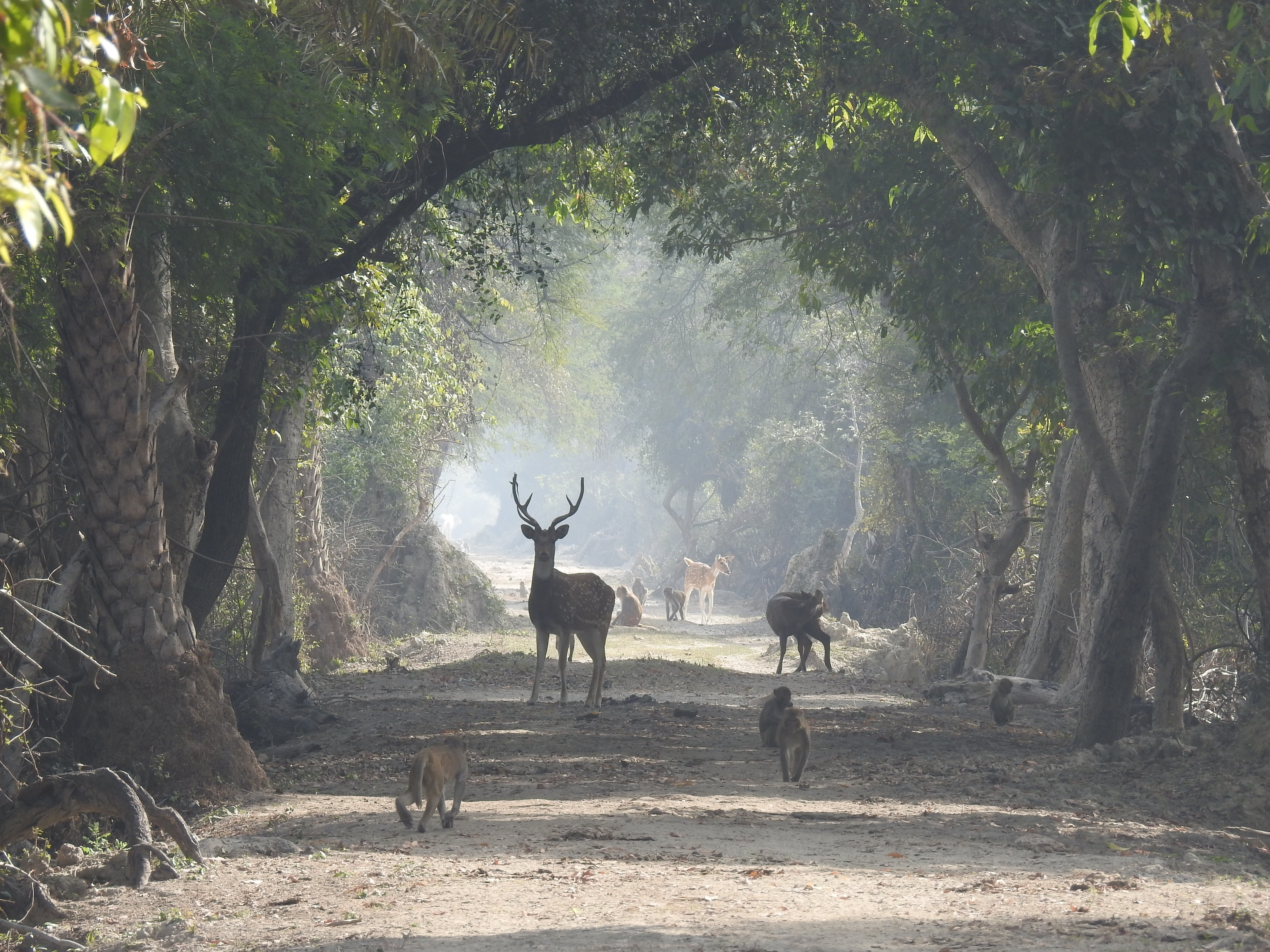 Keoladeo National Park, Bharatpur, Rajasthan.